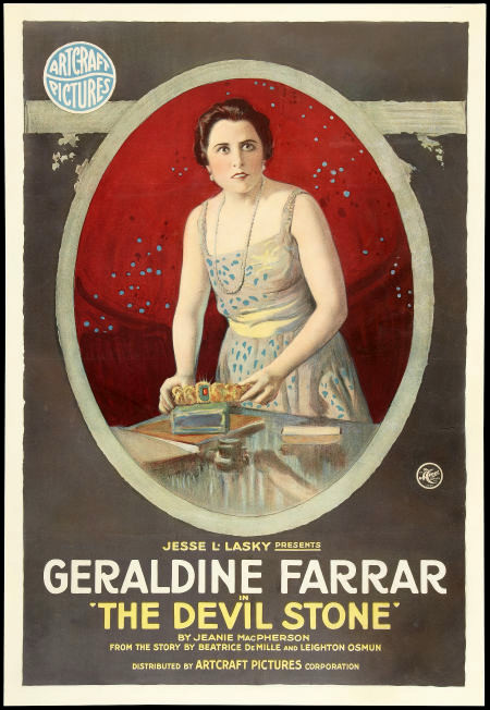 Poster for the American mystery film The Devil-Stone (1917).